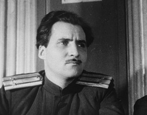 Konstantin Michailowitsch Simonow at one of the sessions of the Kharkov trial of German war criminals. Kharkov 1943 depicted person: Konstantin Mikhailovich Simonov (age: 28)